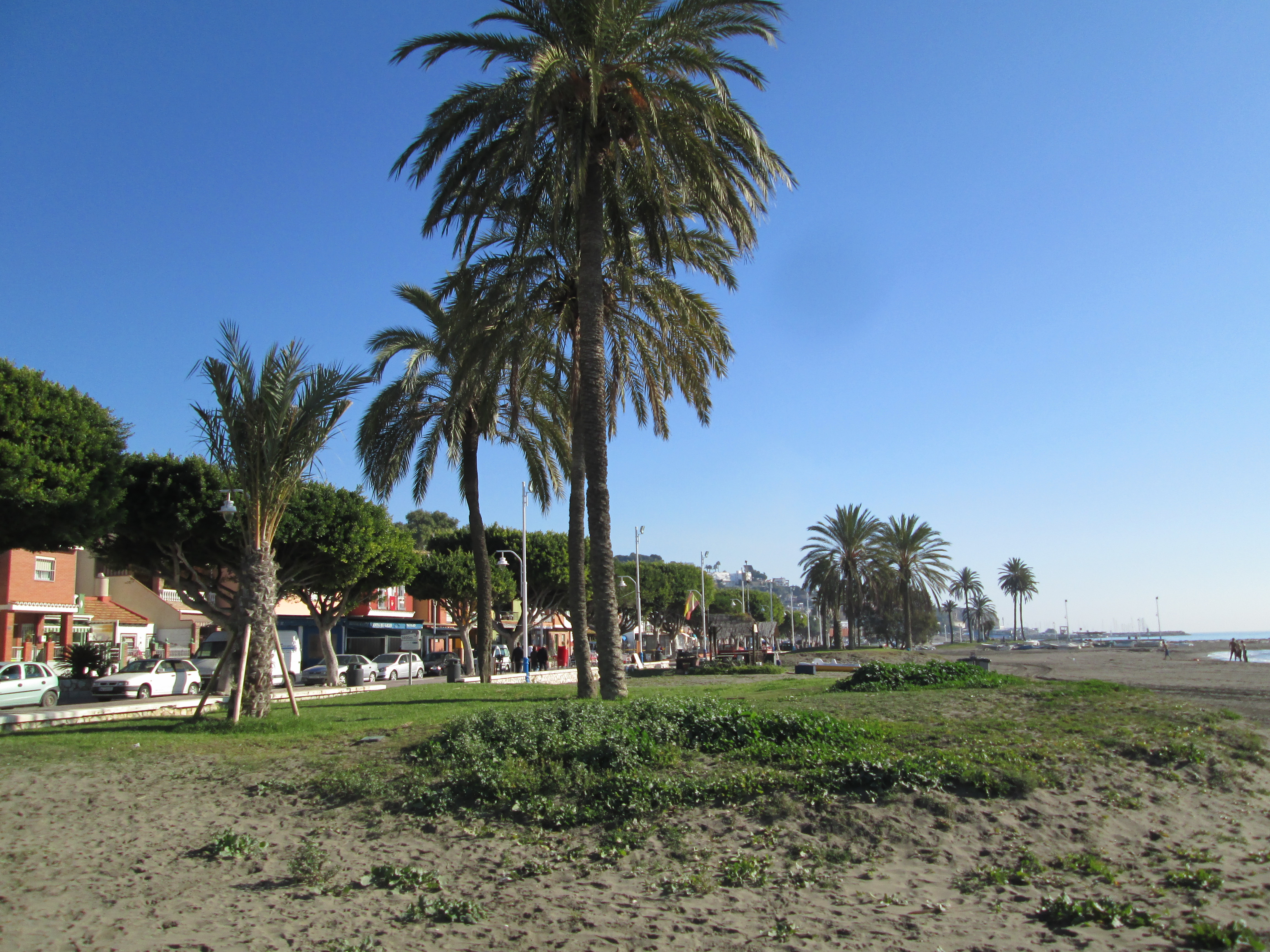 Playa de El Palo, Málaga